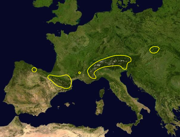 Distribution of Colias phicomone based on: L. G. Higgins, N. D. Riley: Die Tagfalter Europas und Nordwestafrikas. Verlag Paul Parey, Hamburg und Berlin 1978, ISBN 3-490-01918-0. Otakar Kudrna: The distribution atlas of European butterflies. In: oedippus. 20, Apollo Books, Stenstrup Danmark 2002, ISBN 87-88757-56-0